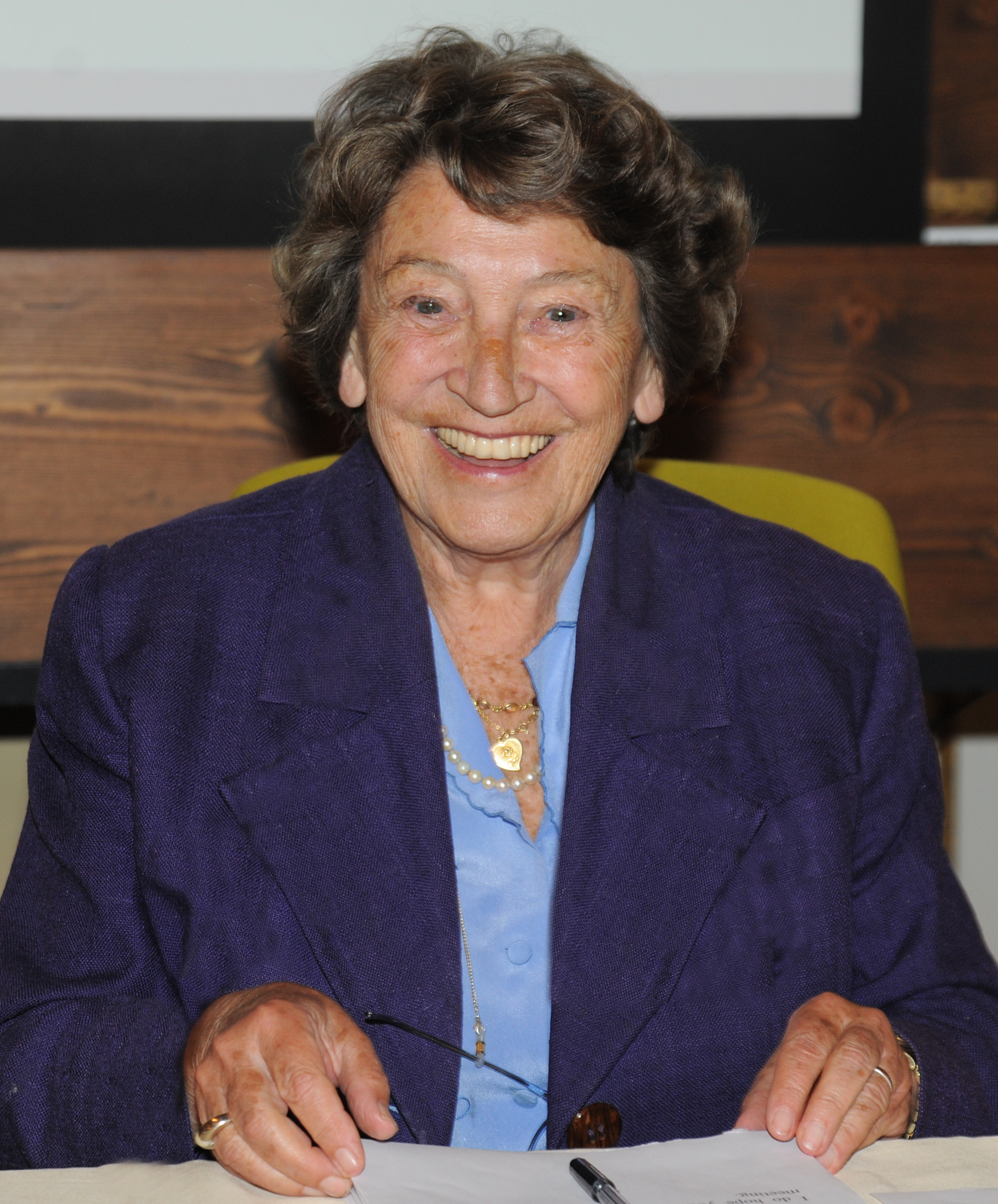 Rosanna Gusmano, Italian pioneer of pediatric nephrology